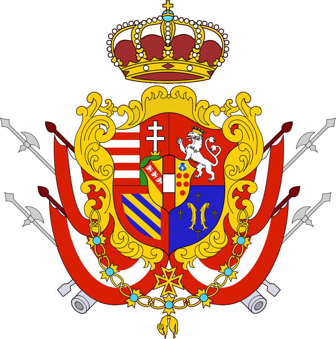 flag of the Grand Duchy of Tuscany, from about 1840 to 1860, except from 1848 to 49.